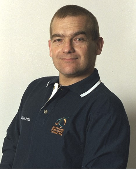 Portrait of Australian wheelchair basketballer Troy Andrews, 2000 Australian Paralympic Team athlete